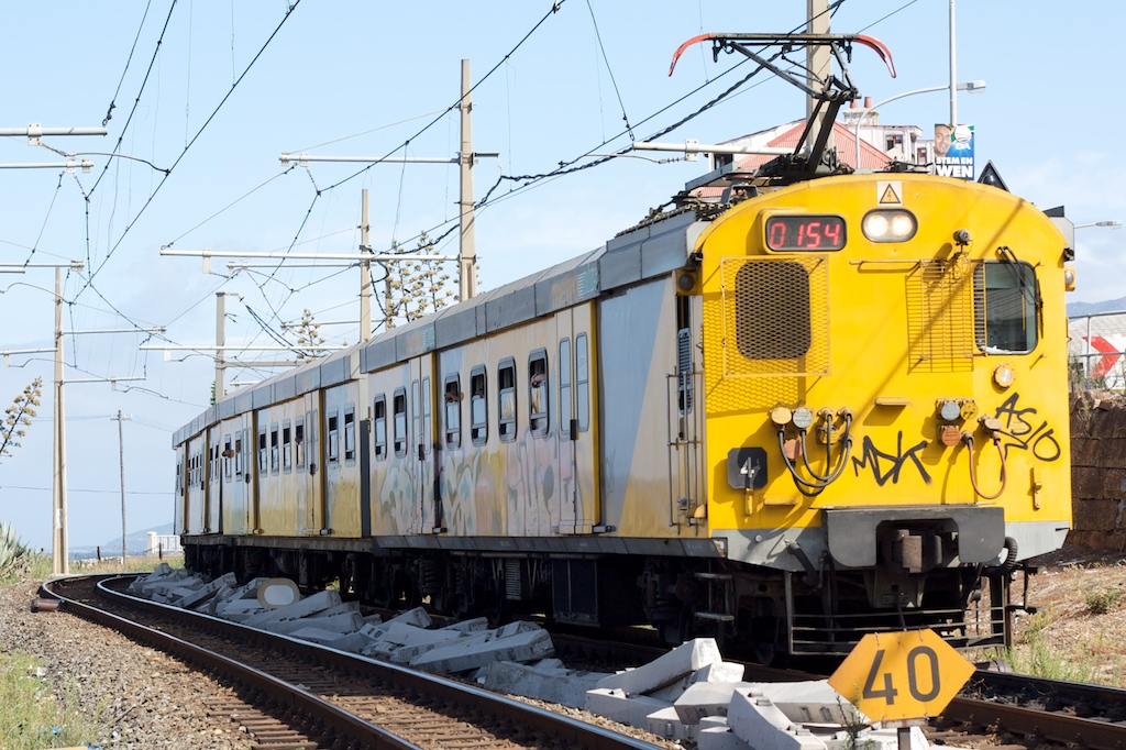 A Metrorail Class 5M2A electric multiple unit near Kalk Bay station on the Metrorail Western Cape Southern Line. (Specifically, the Saturday 15:25 service from Simon's Town to Cape Town.)